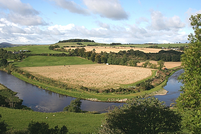 River Deveron Near Inverkeithny A meander in the River Deveron. The clump of trees on the skyline is on Harper Hill. The farm on the left is Cobblehouse and on the right is Auldtown or Oldtown of Netherdale.